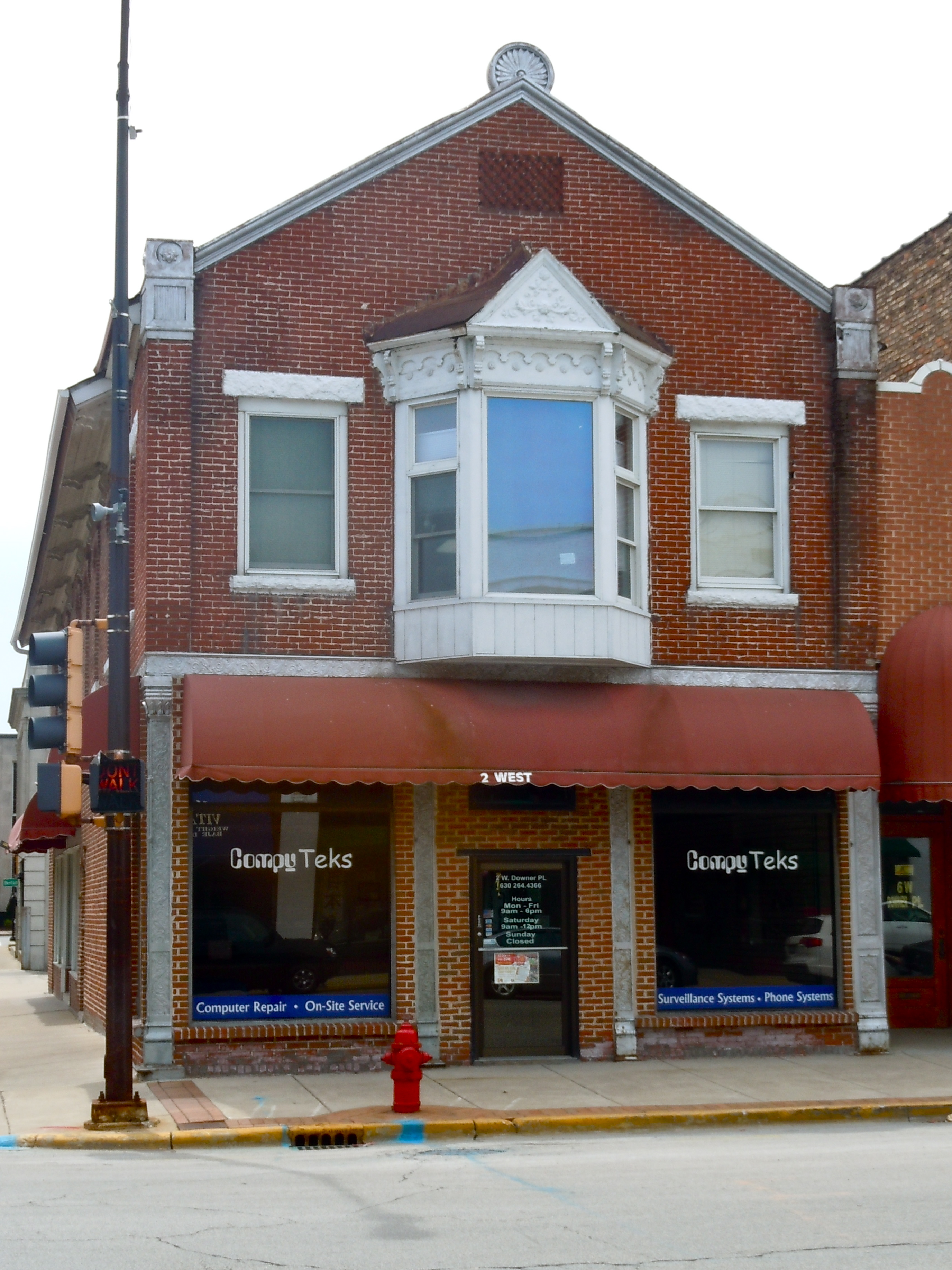 Stolp Woolen Mill Store on the NRHP since September 1, 1983. At 2 W. Downer Pl. on Stolp Island, in the Stolp Island Historic District, Aurora, Kane County, Illinois.